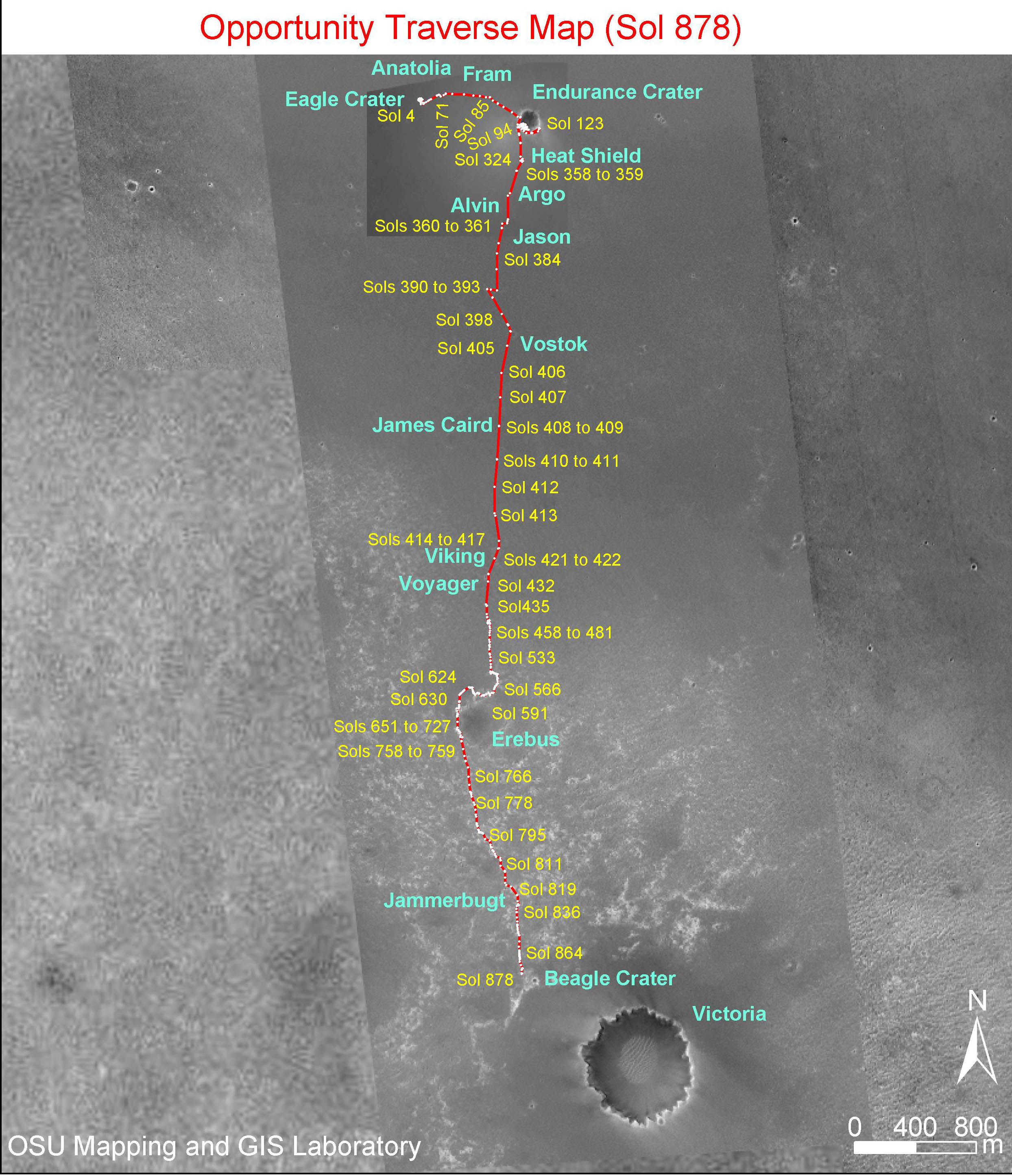 Opportunity rover sol 878 (19 July 2006) traverse map.